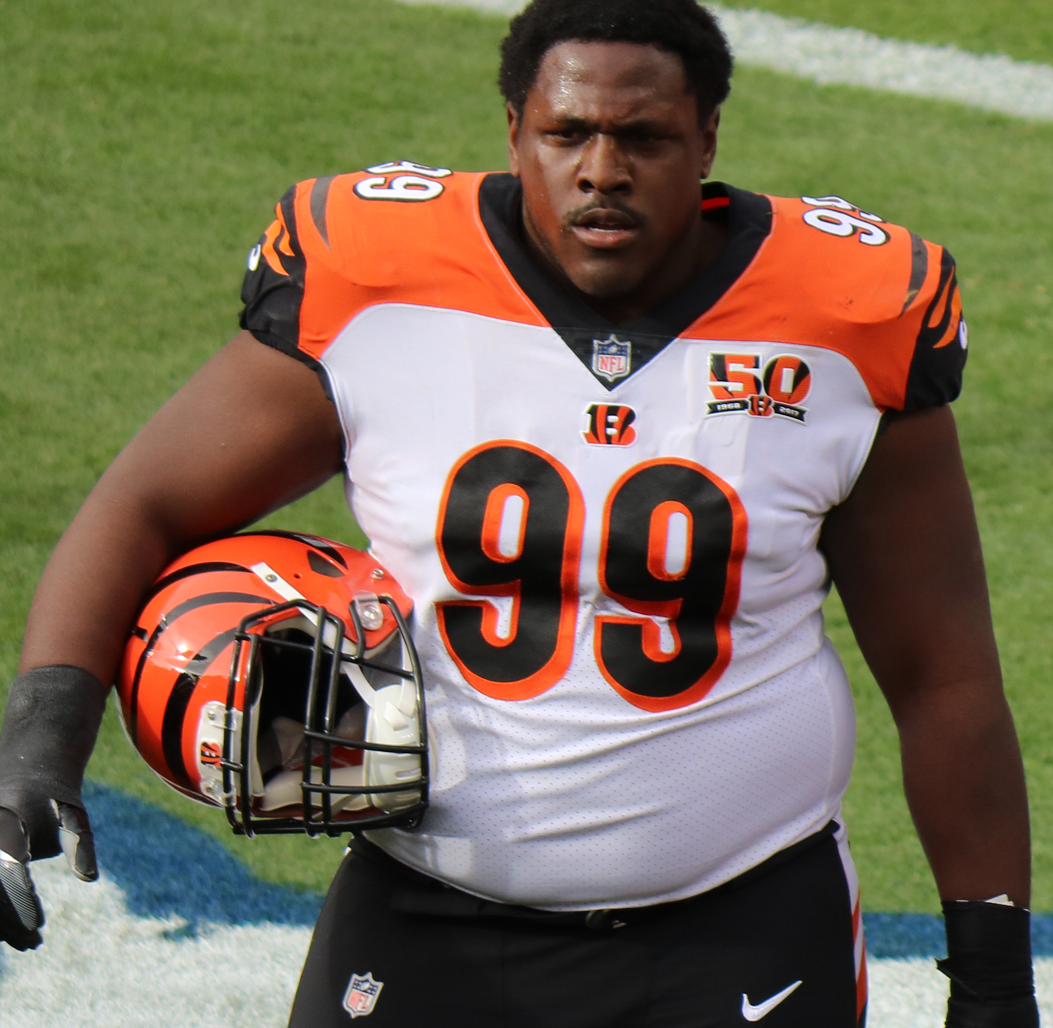 Andrew Billings, a National Football League player.